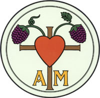 A seal of the Germantown congregation, used by various members on land transactions. Previously thought to be the personal seal of Alexander Mack because of the "A.M.," which more likely refers to "Abendmahl," the Brethren's Lord's Supper or Love Feast.[1] Licensing References: ↑ Brethren Encyclopedia, Volume IV, pp. 2142-2143.